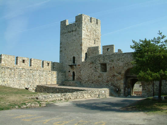 Dizdar's (Despot's) Tower, house of the Popular Observatory in Belgrade.